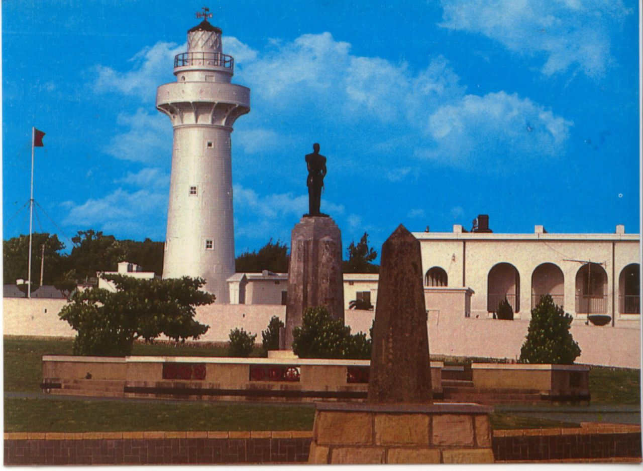 Taiwan: Oluampi Lighthouse on southern tip of islandTaiwan - Oluampi Lighthouse on southern tip of island